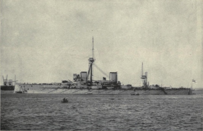 HMS Dreadnought was a Royal Navy battleship, built in 1905 and entry into service in 1906.